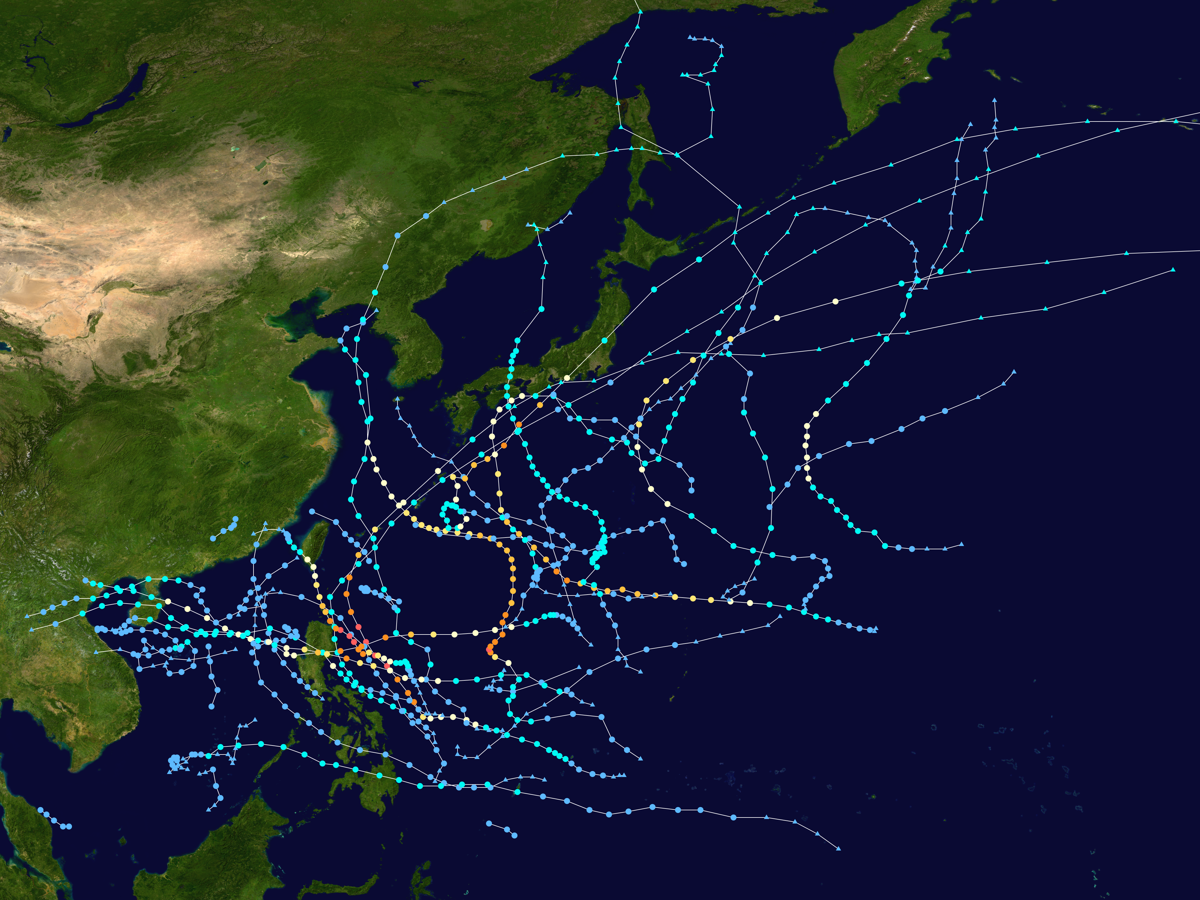 This map shows the tracks of all tropical cyclones in the 2011 Pacific typhoon season. The points show the location of each storm at 6-hour intervals. The colour represents the storm's maximum sustained wind speeds as classified in the Saffir-Simpson Hurricane Scale (see below), and the shape of the data points represent the type of the storm. Saffir–Simpson scale Tropical depression≤38 mph≤62 km/h Category 3111–129 mph178–208 km/h Tropical storm39–73 mph63–118 km/h Category 4130–156 mph209–251 km/h Category 174–95 mph119–153 km/h Category 5≥157 mph≥252 km/h Category 296–110 mph154–177 km/h Unknown Storm type Tropical cyclone Subtropical cyclone Extratropical cyclone / Remnant low / Tropical disturbance / Monsoon depression